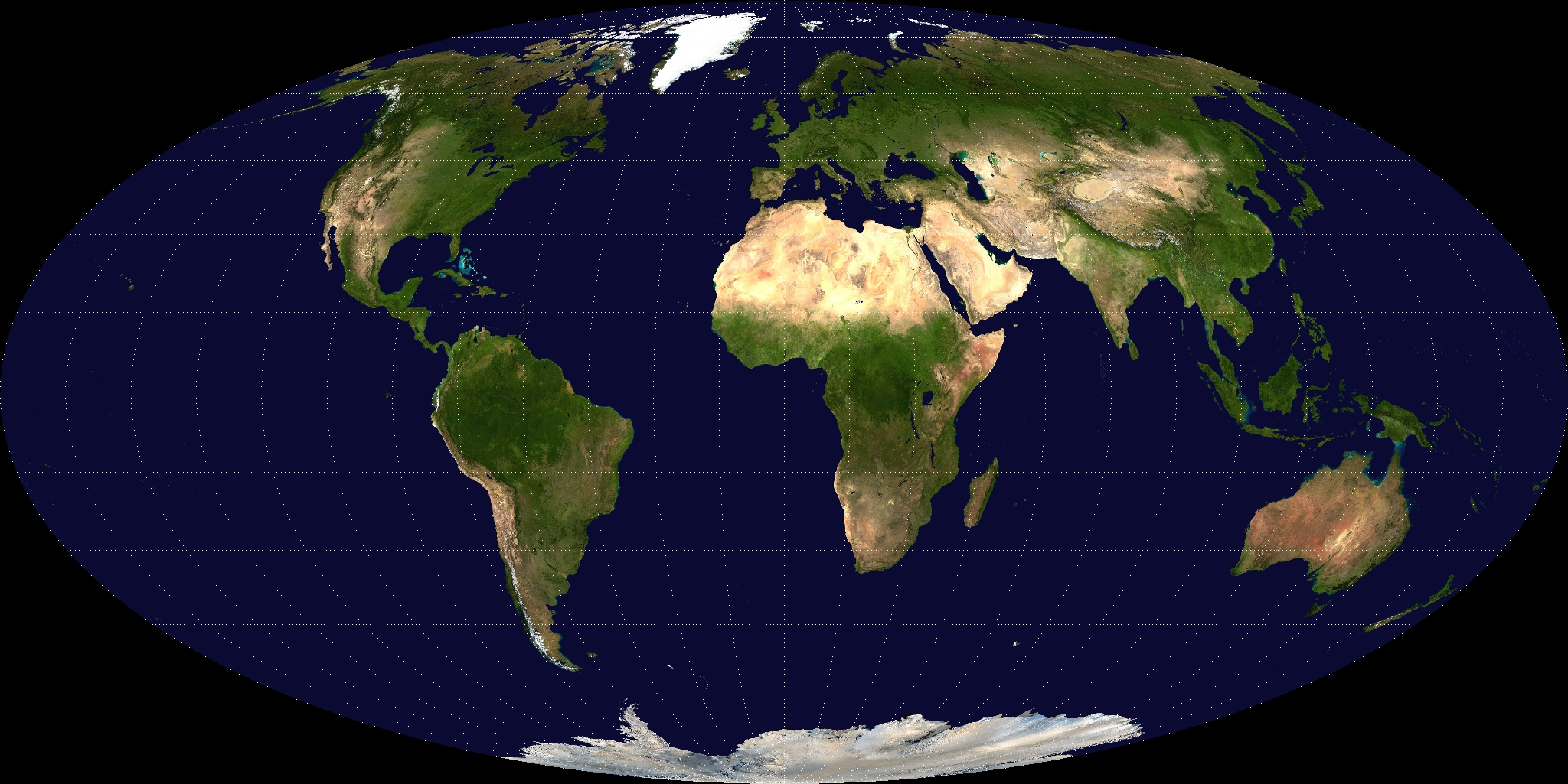 A Mollweide projection of a visible Earth image collected by NASA's Earth Observatory. The reticle is 15 degrees in latitude and longitude.